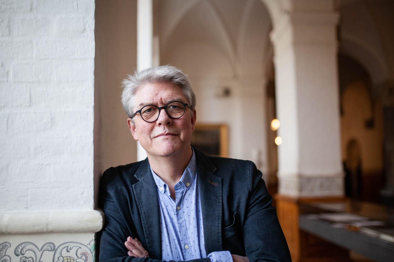 Karsten Hønge, Christiansborg, November 2018. Foto William Vest-Lillesøe